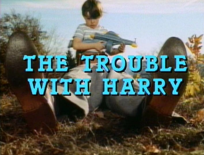 Cropped screenshot of Jerry Mathers from the trailer for the film The Trouble With Harry.